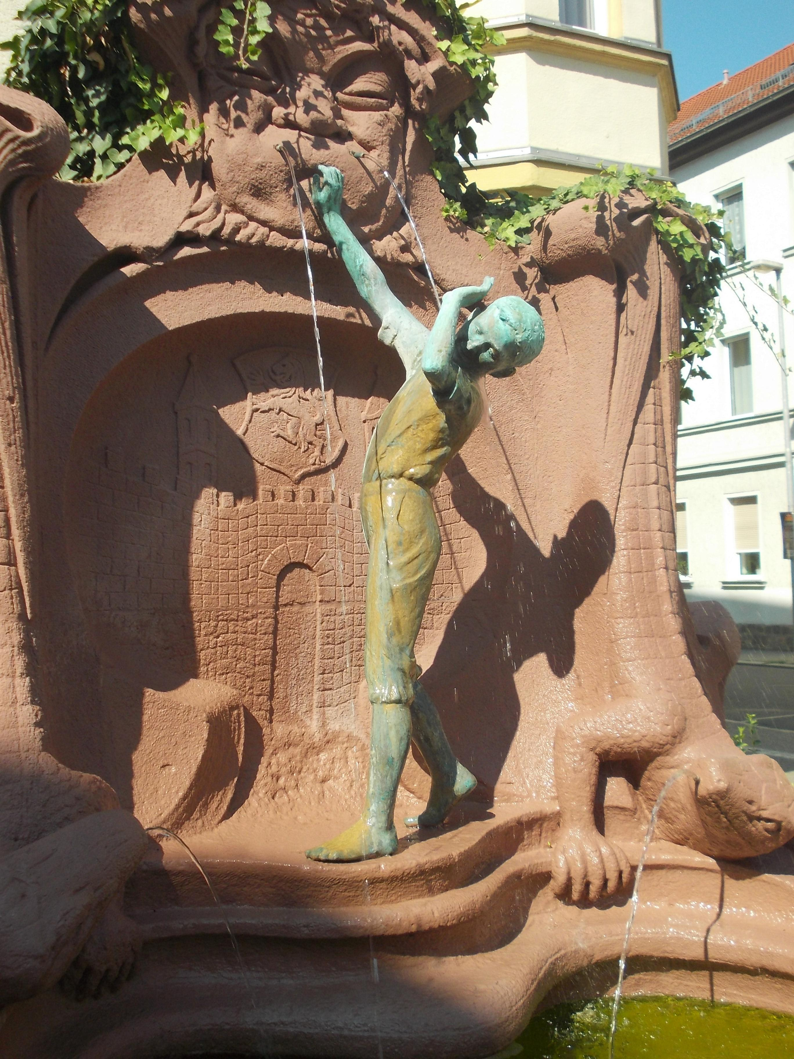 Fountain at Beuditzstrasse in Weissenfels (district: Burgenlandkreis, Saxony-Anhalt)